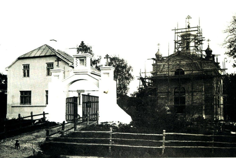 Construction of pravoslavic church in Šiauliai (1937), Lithuania